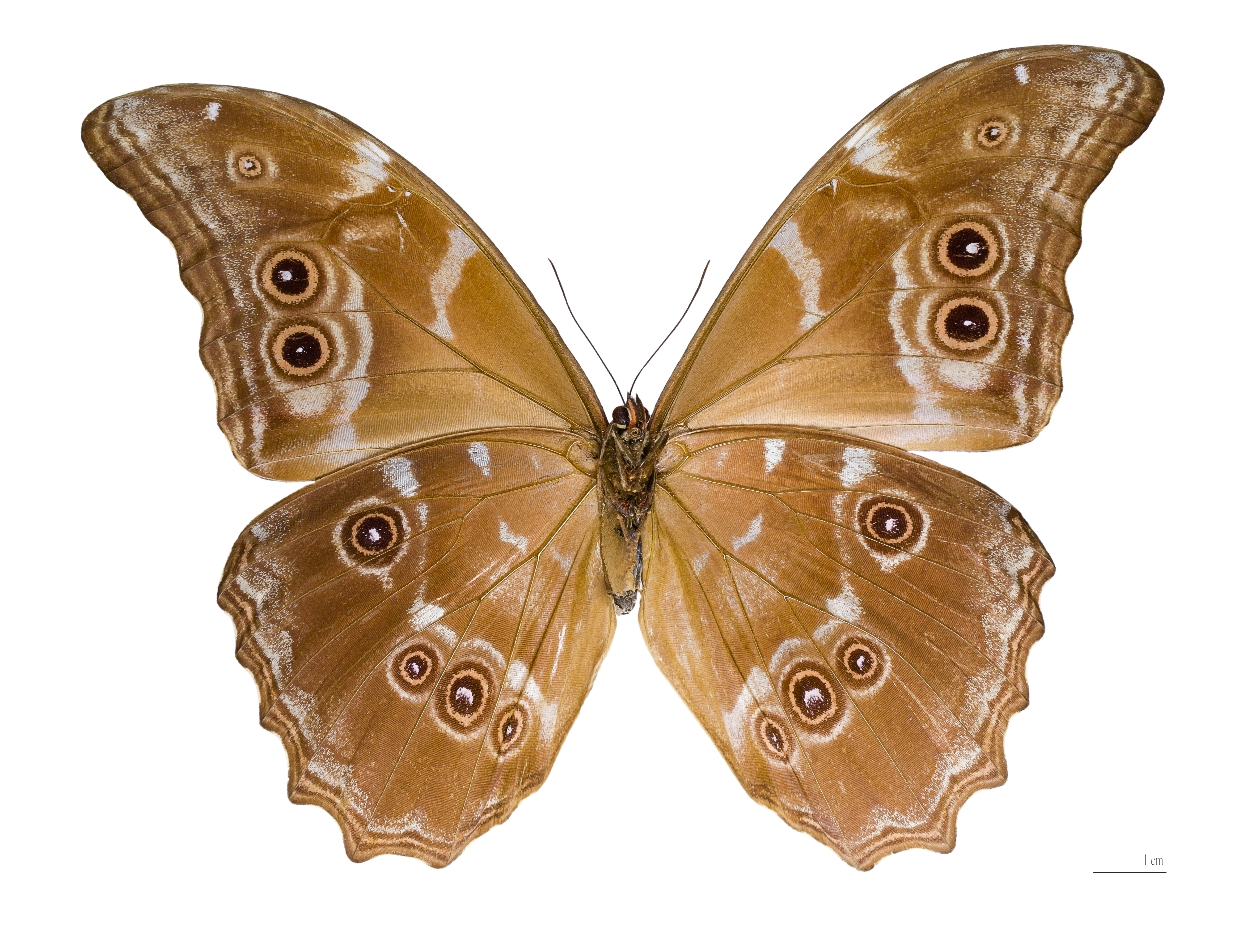 Male - ventral side Locality: Peru